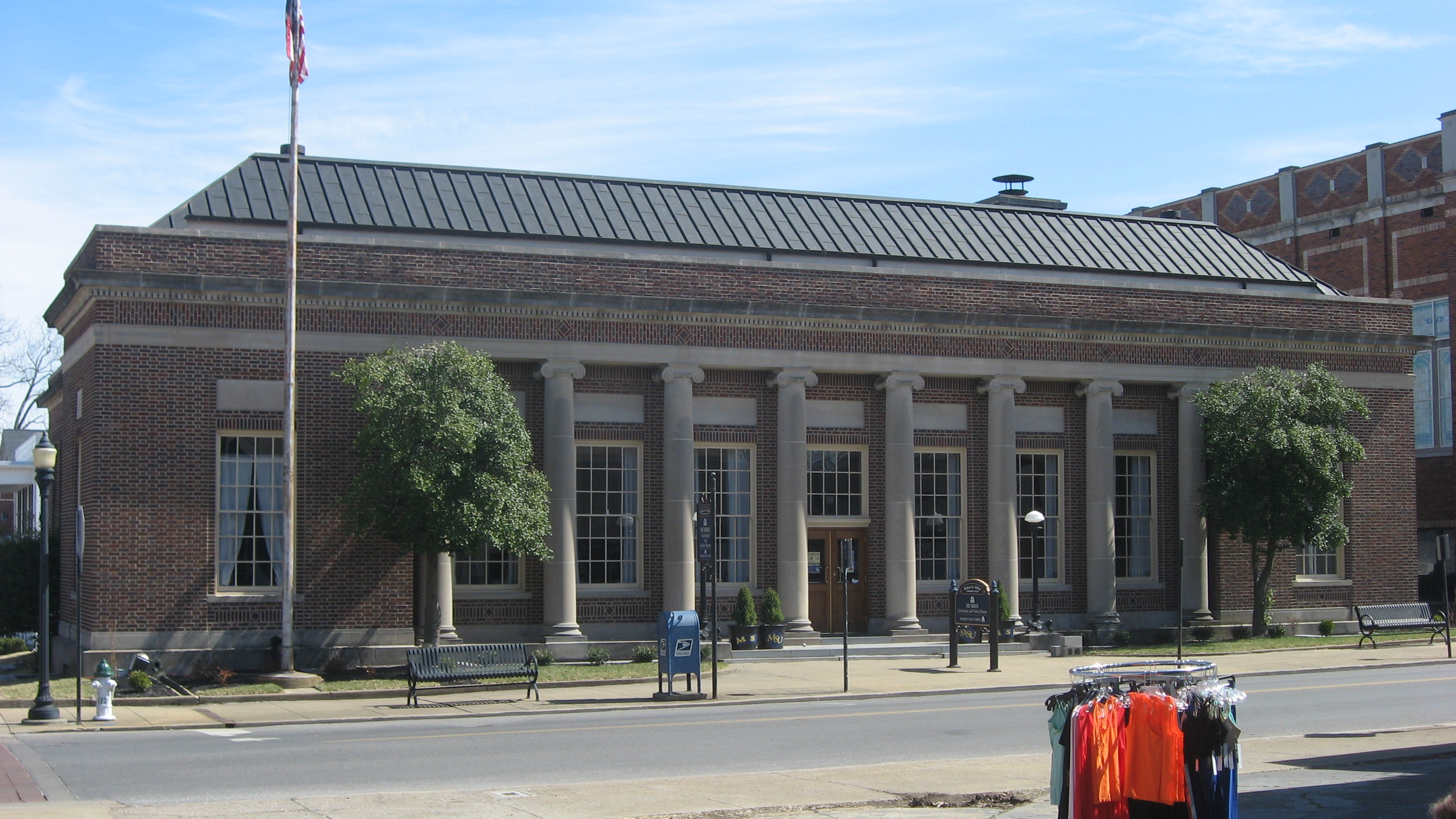 Front of the Murray Post Office, located at 201 S. Fourth Street (Kentucky Route 121) in Murray, Kentucky, United States. Built in 1931, it is listed on the National Register of Historic Places.